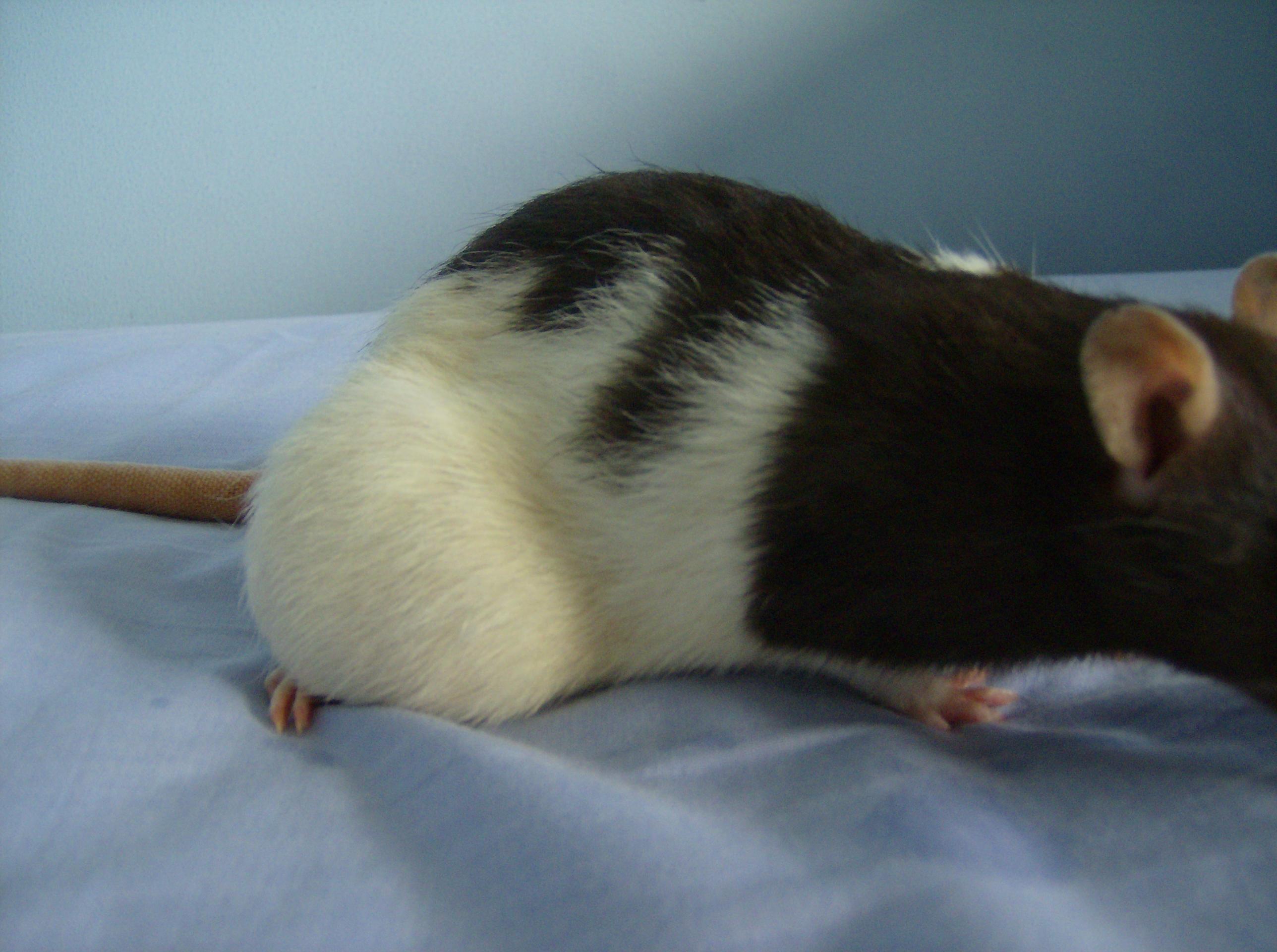 An image showing a brown hooded rat with a large tumor